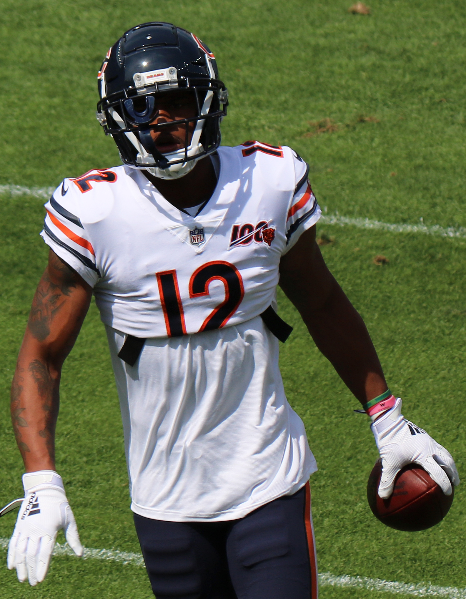 Allen Robinson, a National Football League player.